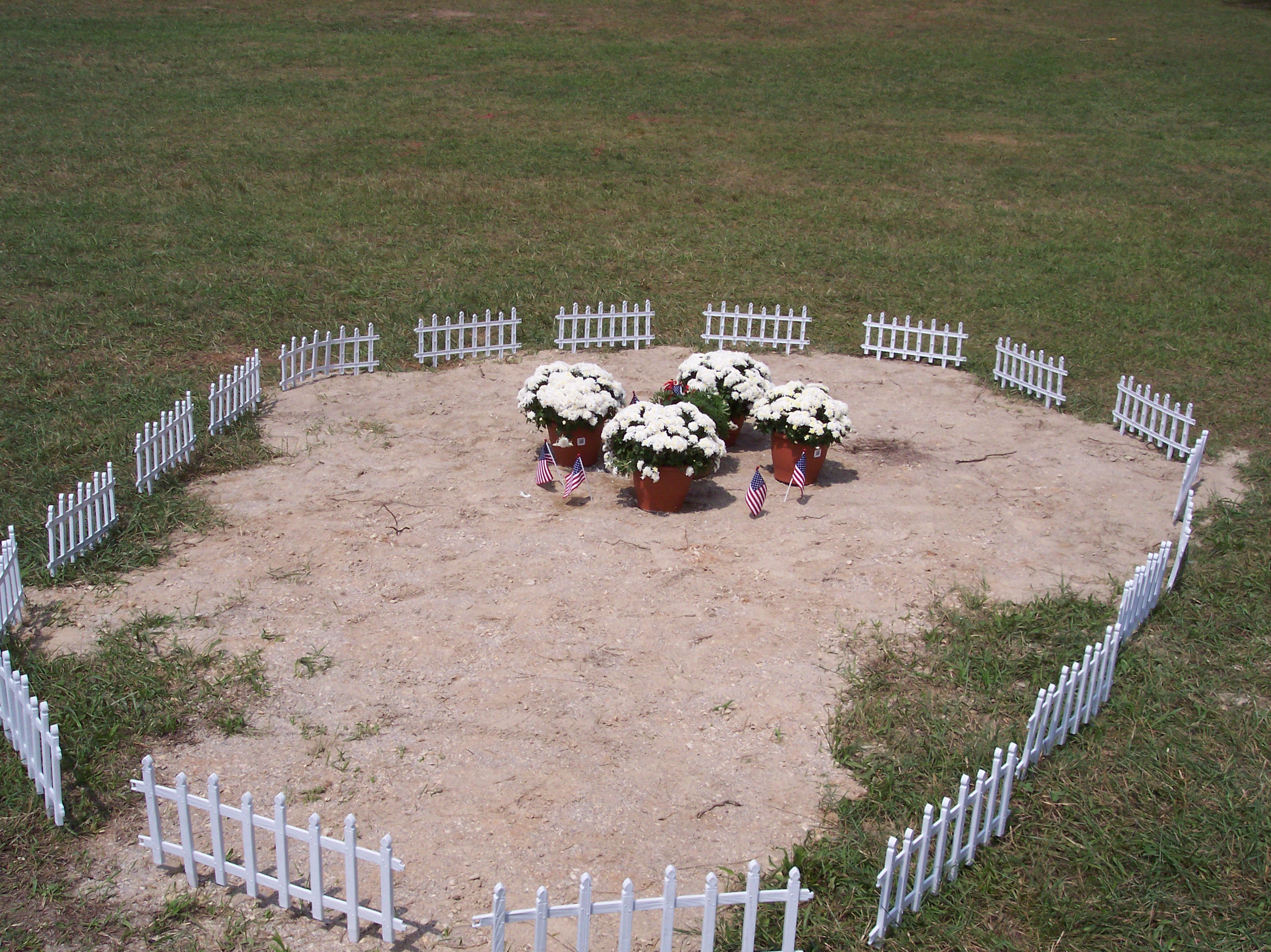 author- jobengo